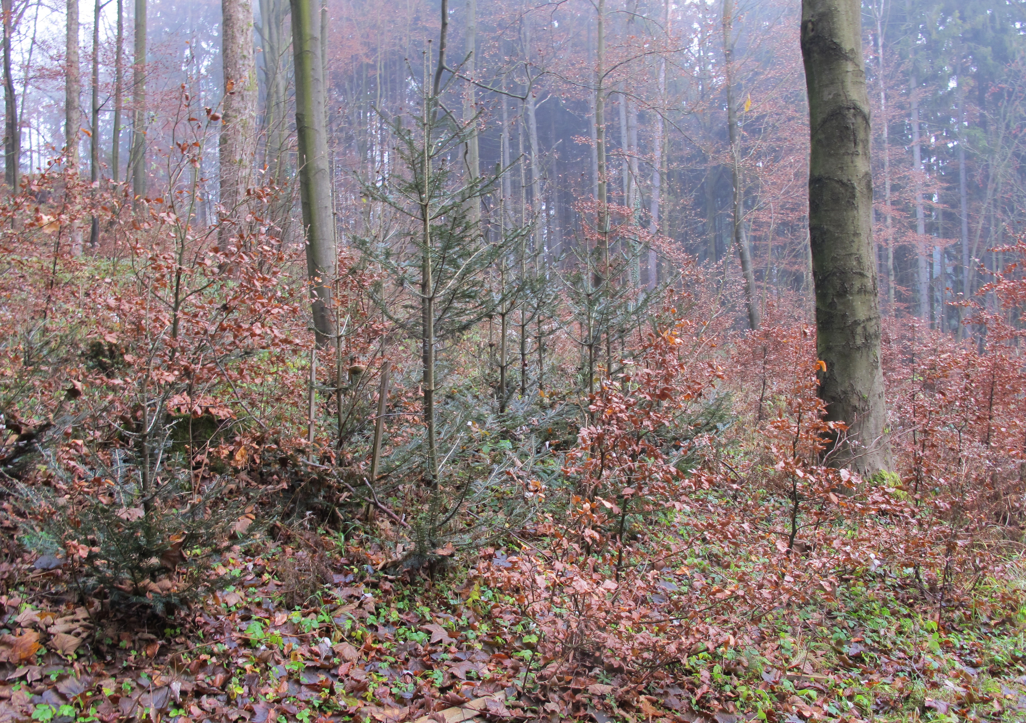 National natural monument Bozkovské dolomitové jeskyně (The Bozkov Dolomite Caves) near Bozkov in Semily District - Czech Republic